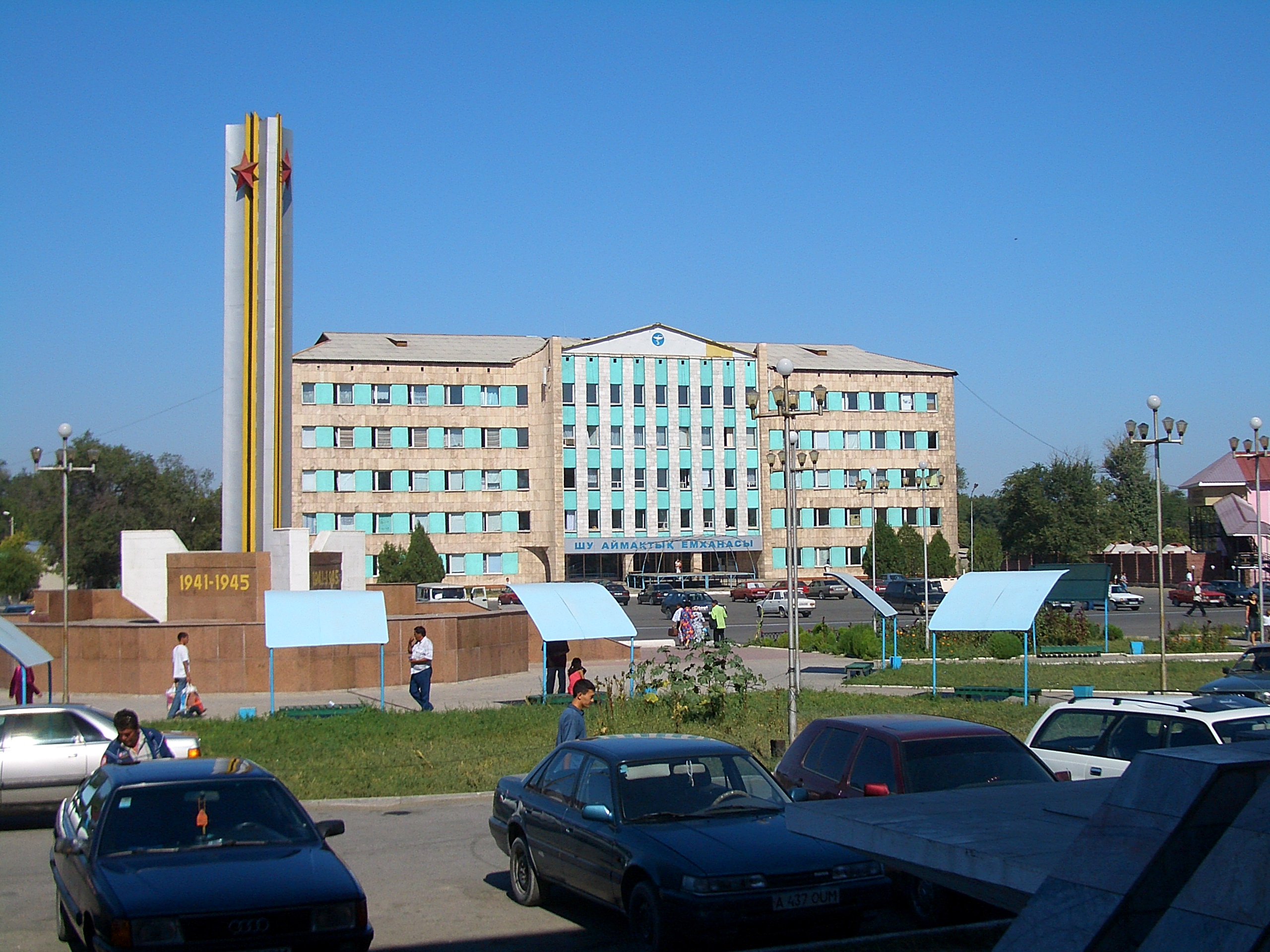 The district hospital and a WWII monument in Shu, Kazakhstan. They are located across the square from the train station.